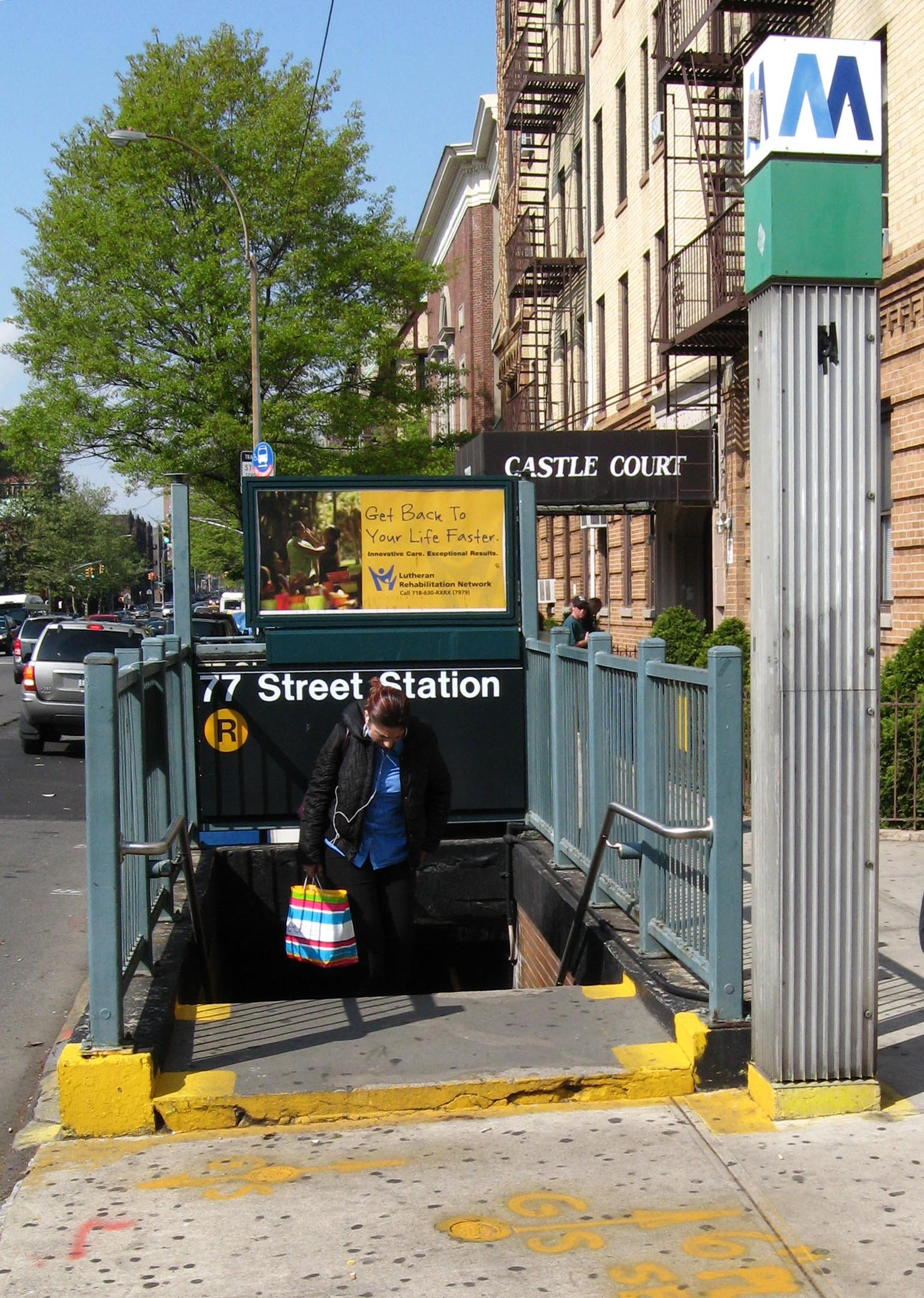 77th St stairway in Bay Ridge. I took this picture after leaving the Five Boro Bike Tour, looking north on the east side of 4th Avenue on a springtime sunny afternoon.